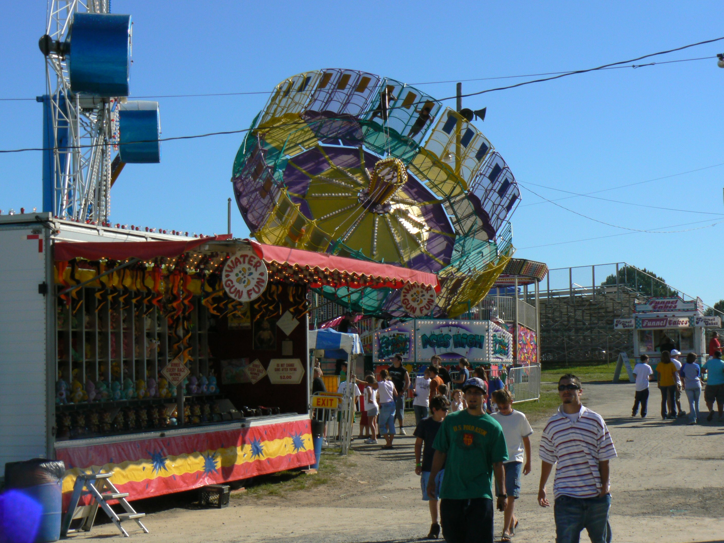 I liked the big Round-up ride called "Aces High".